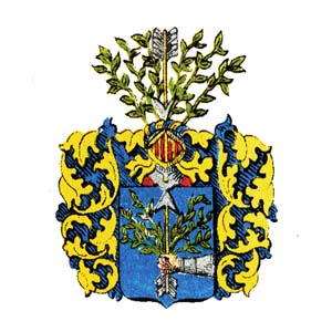 Den adliga ätten Palms släktvapen.